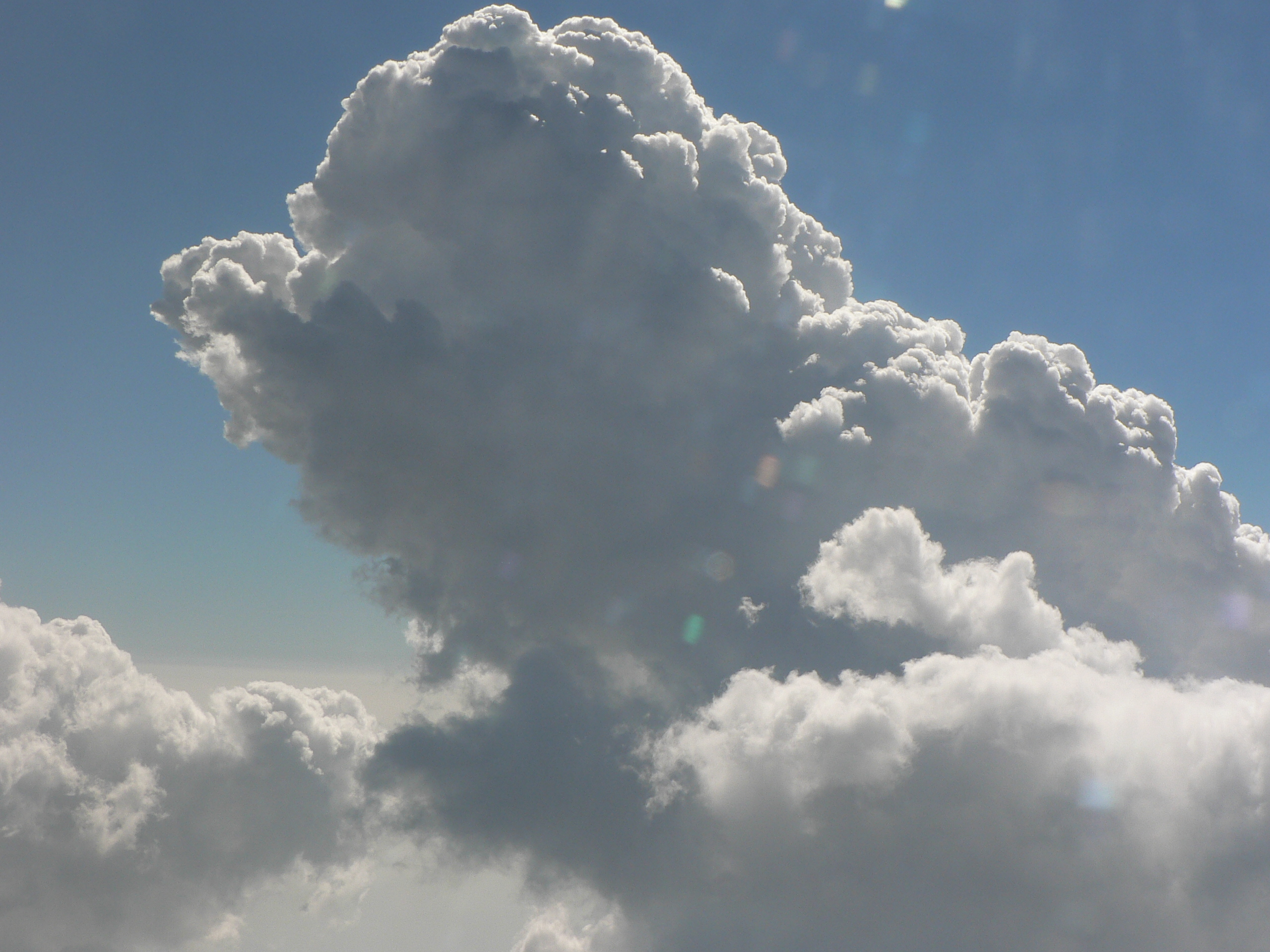 sight from airplane